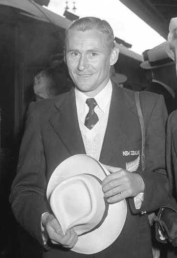 Don Jowett and Jean Stewart, members of 1954 Empire Games team, photographed on arrival back in New Zealand 17 August 1954 by a Dominion staff photographer.